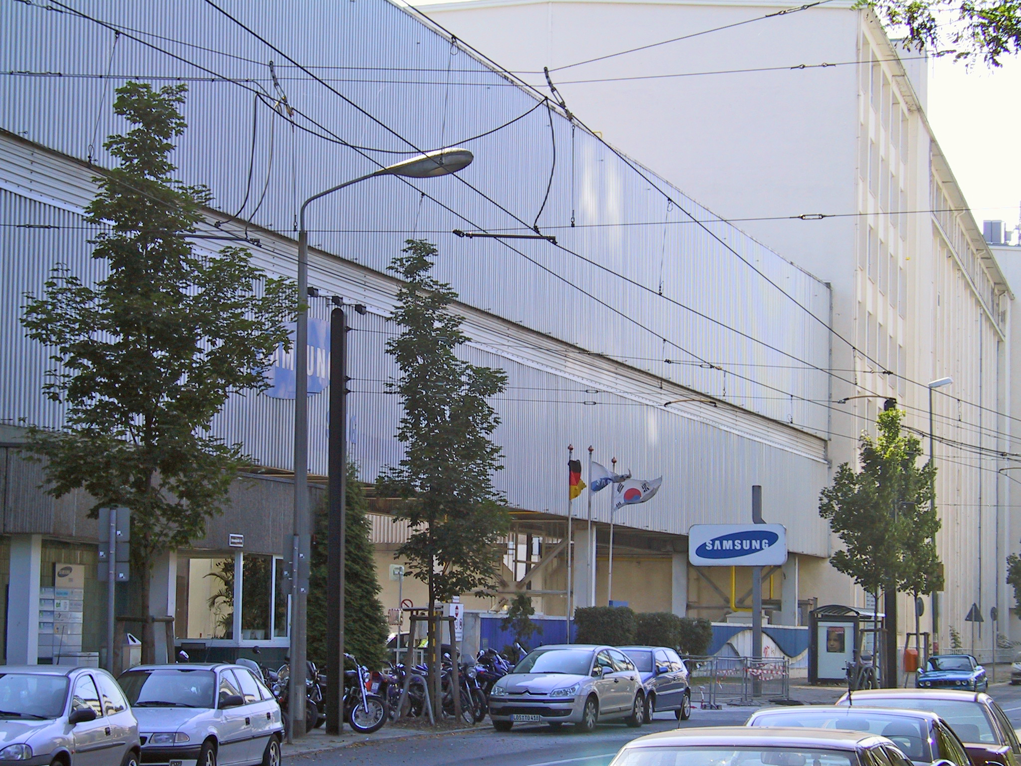 Samsung building in Oberschöneweide a localitie of Berlin.